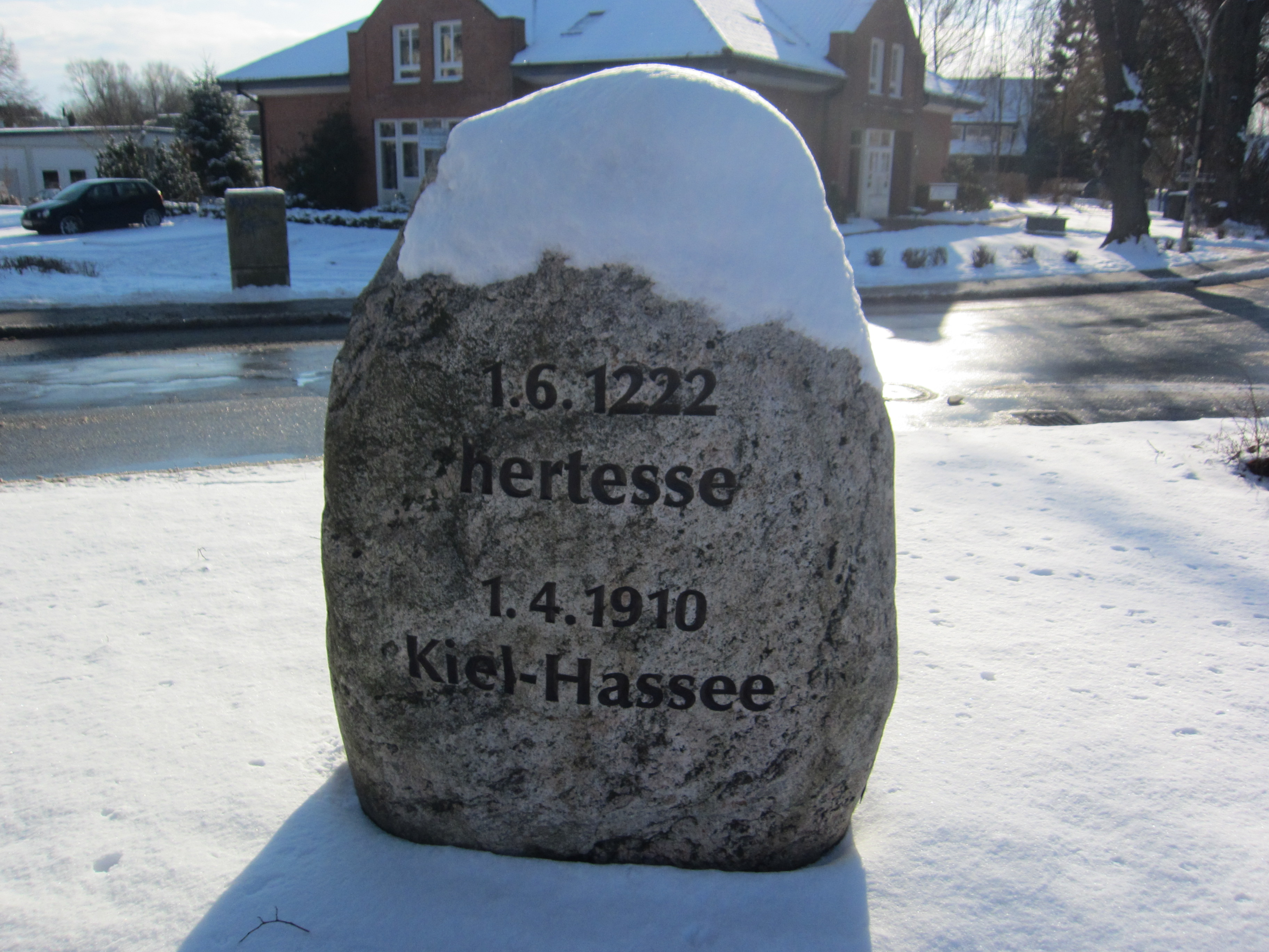 Memorial of the place Hassee, district of Kiel